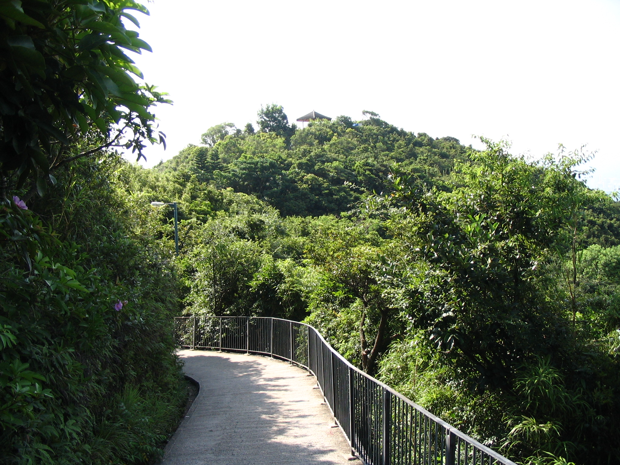 Photo of Lung Fu Shan